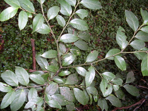 Citronella moorei_juvenile at Chatswood West